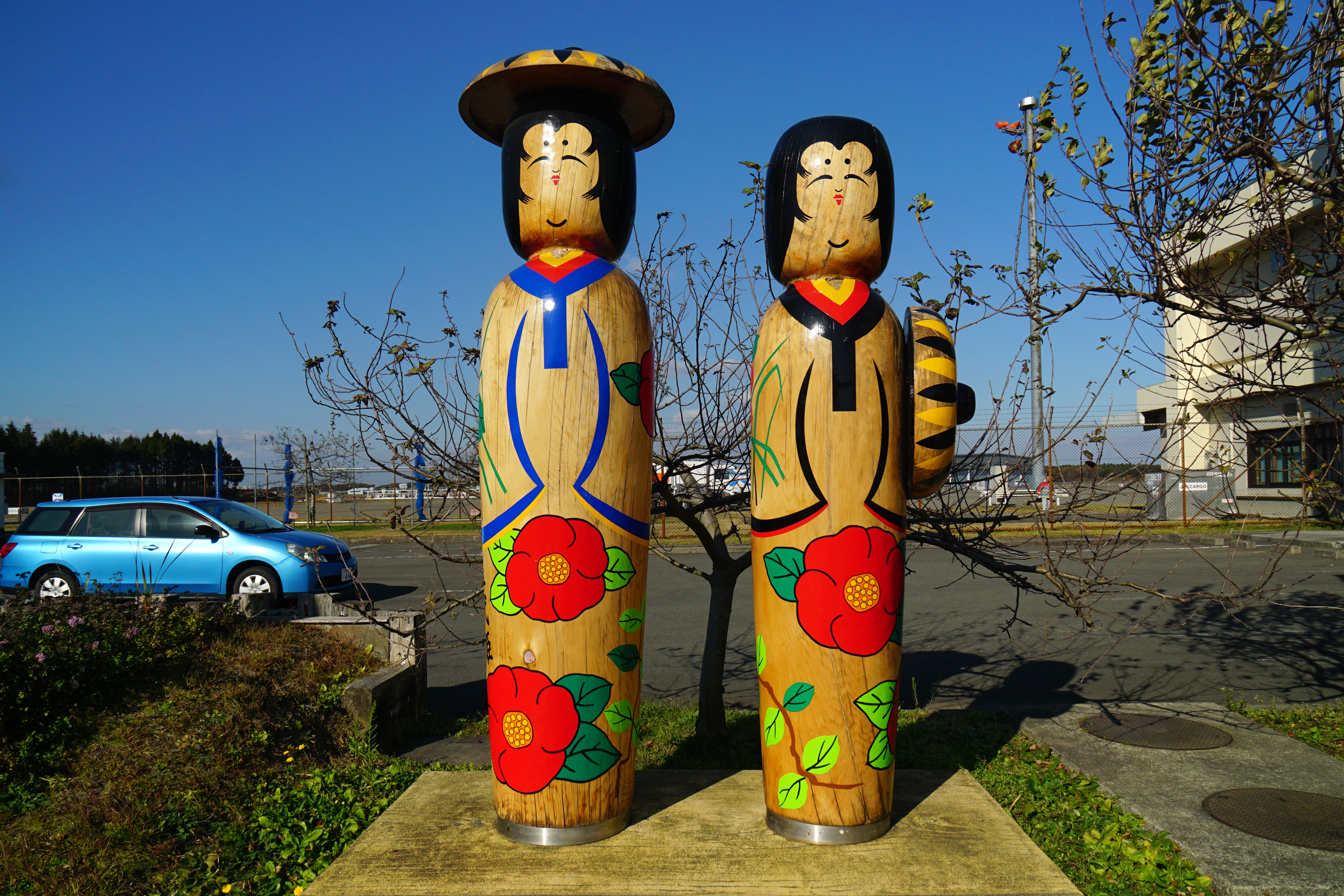 At Misawa Airport in Misawa, Aomori prefecture, Japan.